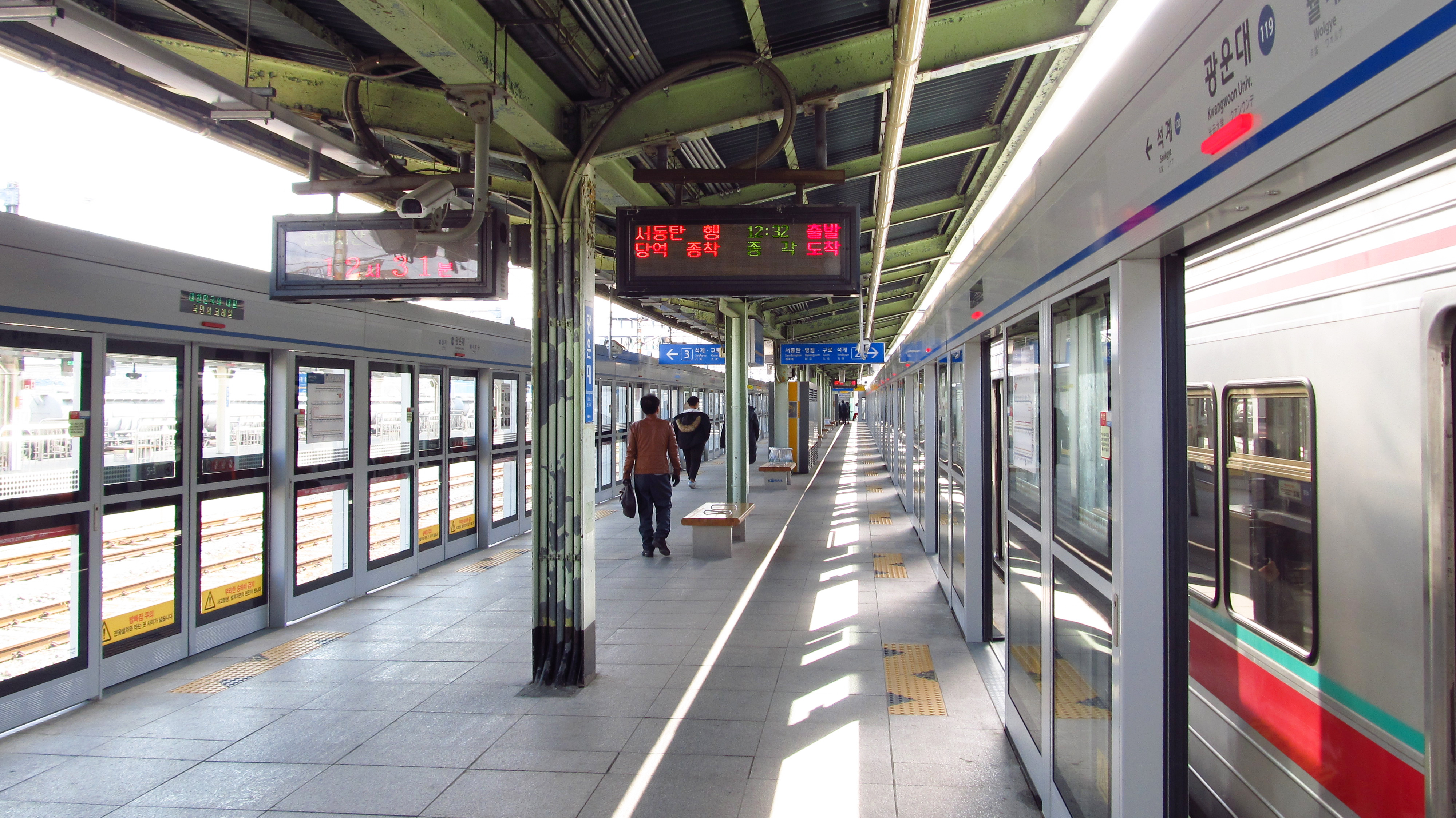 The platform at Kwangwoon University Station on Seoul Subway Line 1 in Nowon-gu, Seoul, Republic of Korea(South Korea)